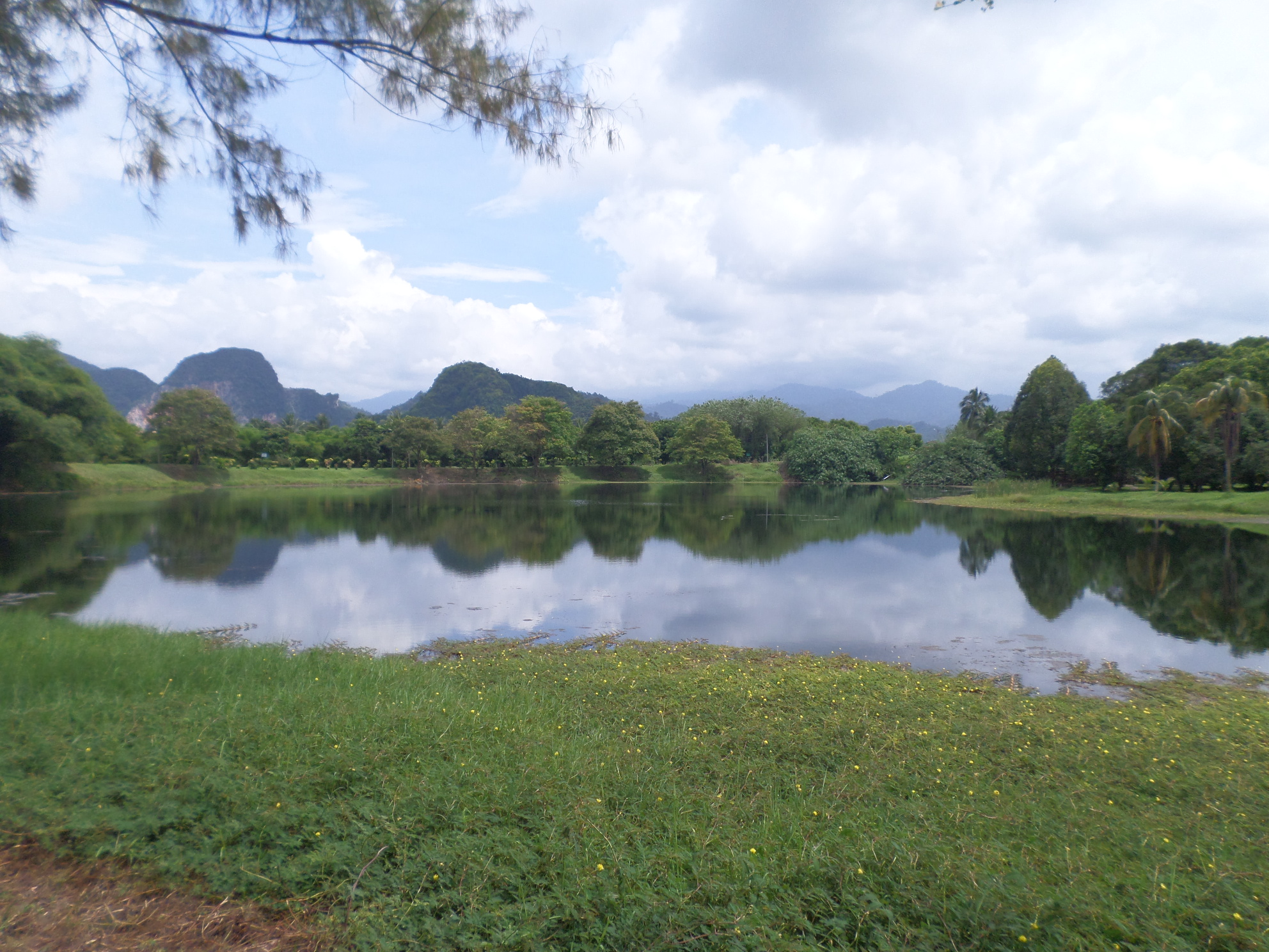 Herb Park, Kepayang Village, Kinta, Perak, Malaysia